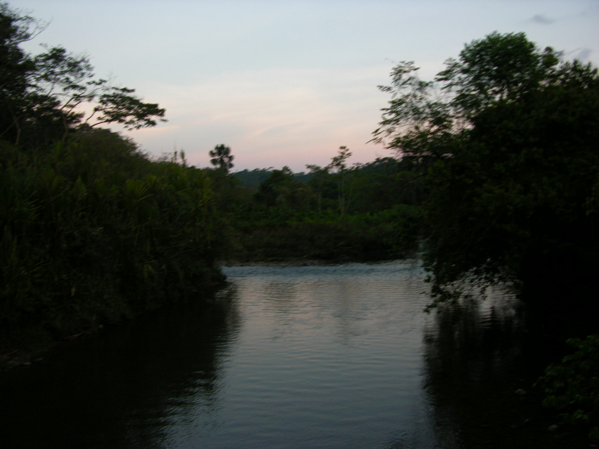 the River Pindo, in Pastaza province, Ecuador